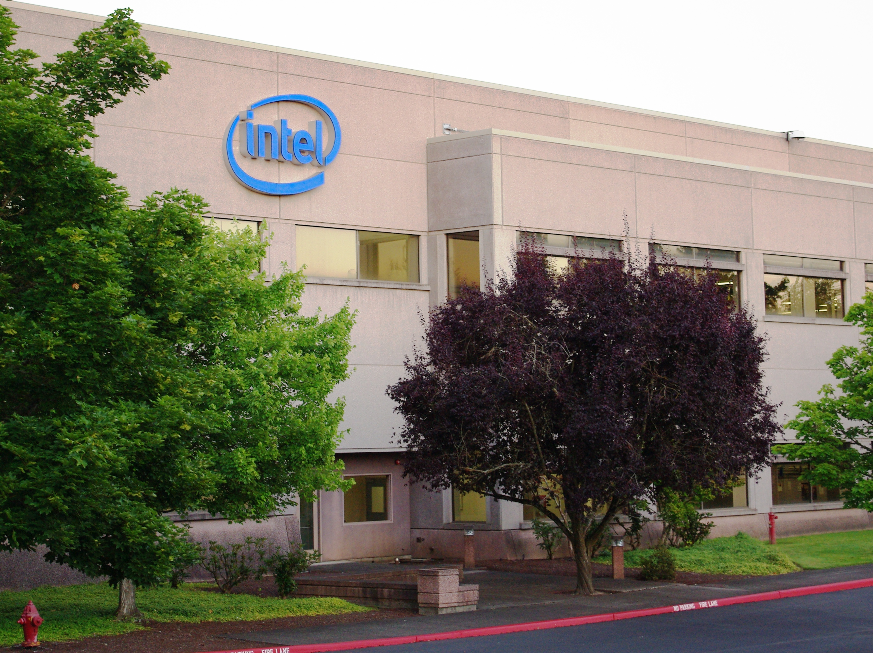 Intel's Hawthorn Farm facility in Hillsboro, Oregon, USA. Westside of the building.